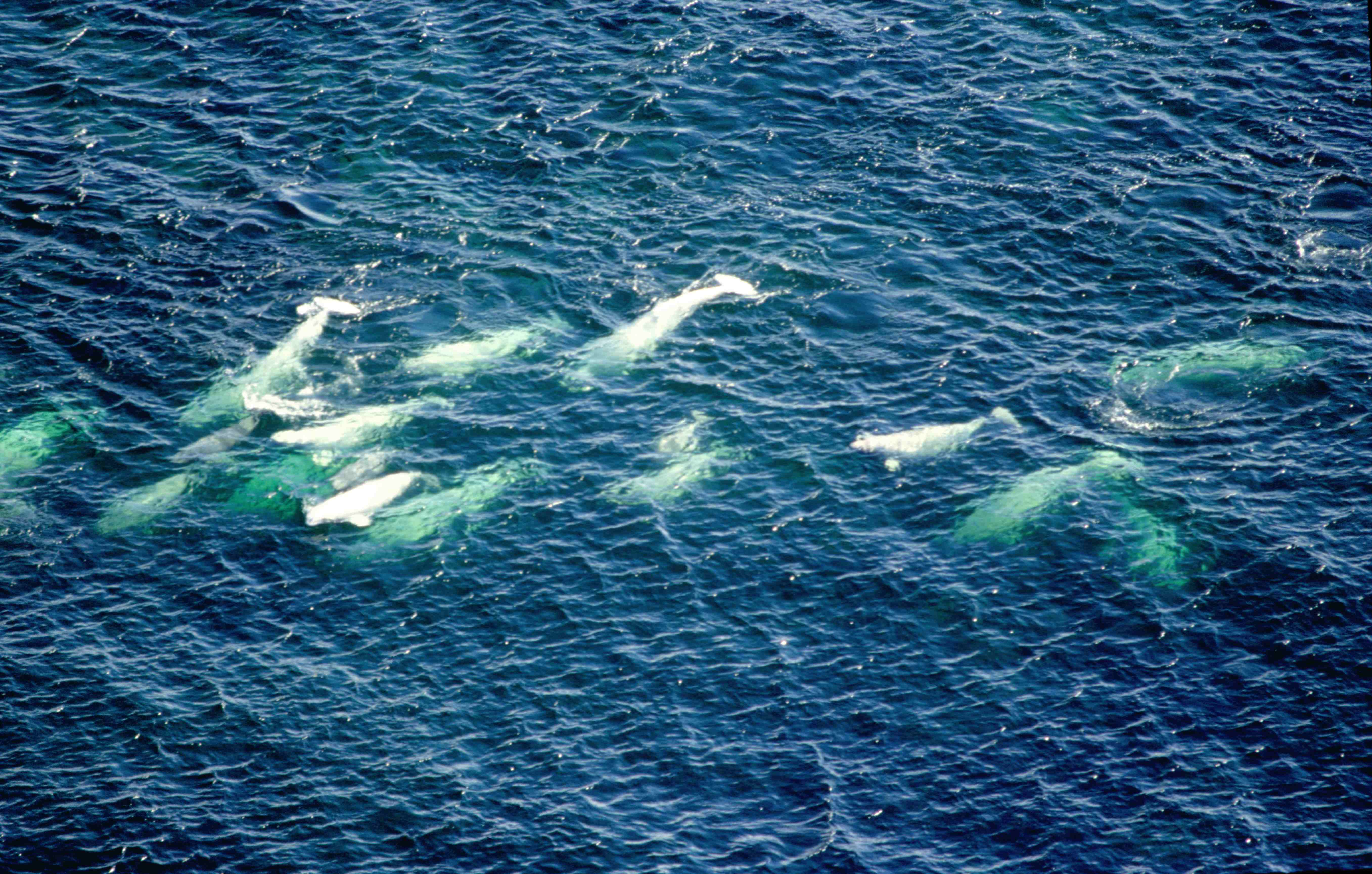 School of White Whales (Hudson Bay near Churchill, Manitoba, Canada)